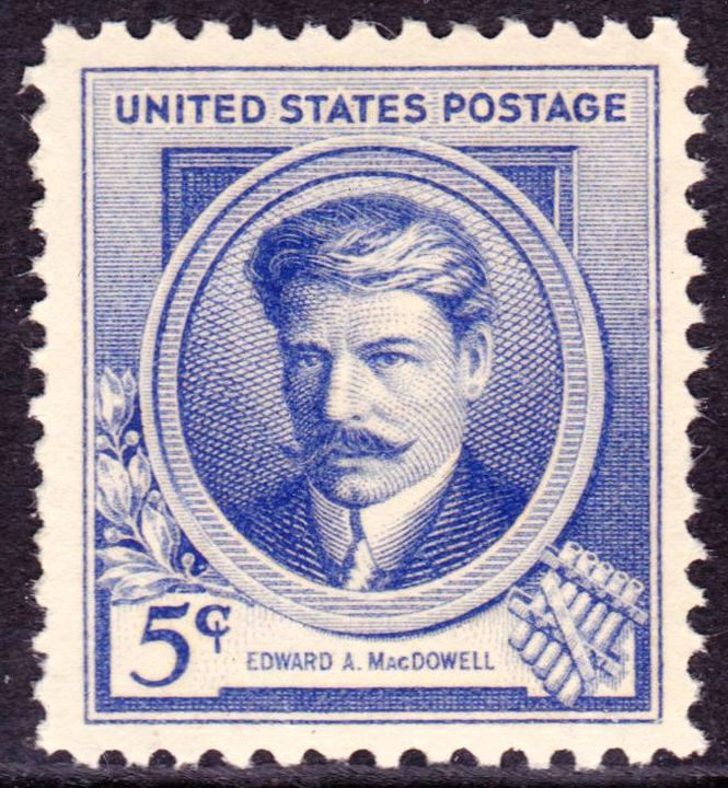 US Postage stamp, Edward A. MacDowell, issue of 1940, 5c, blue